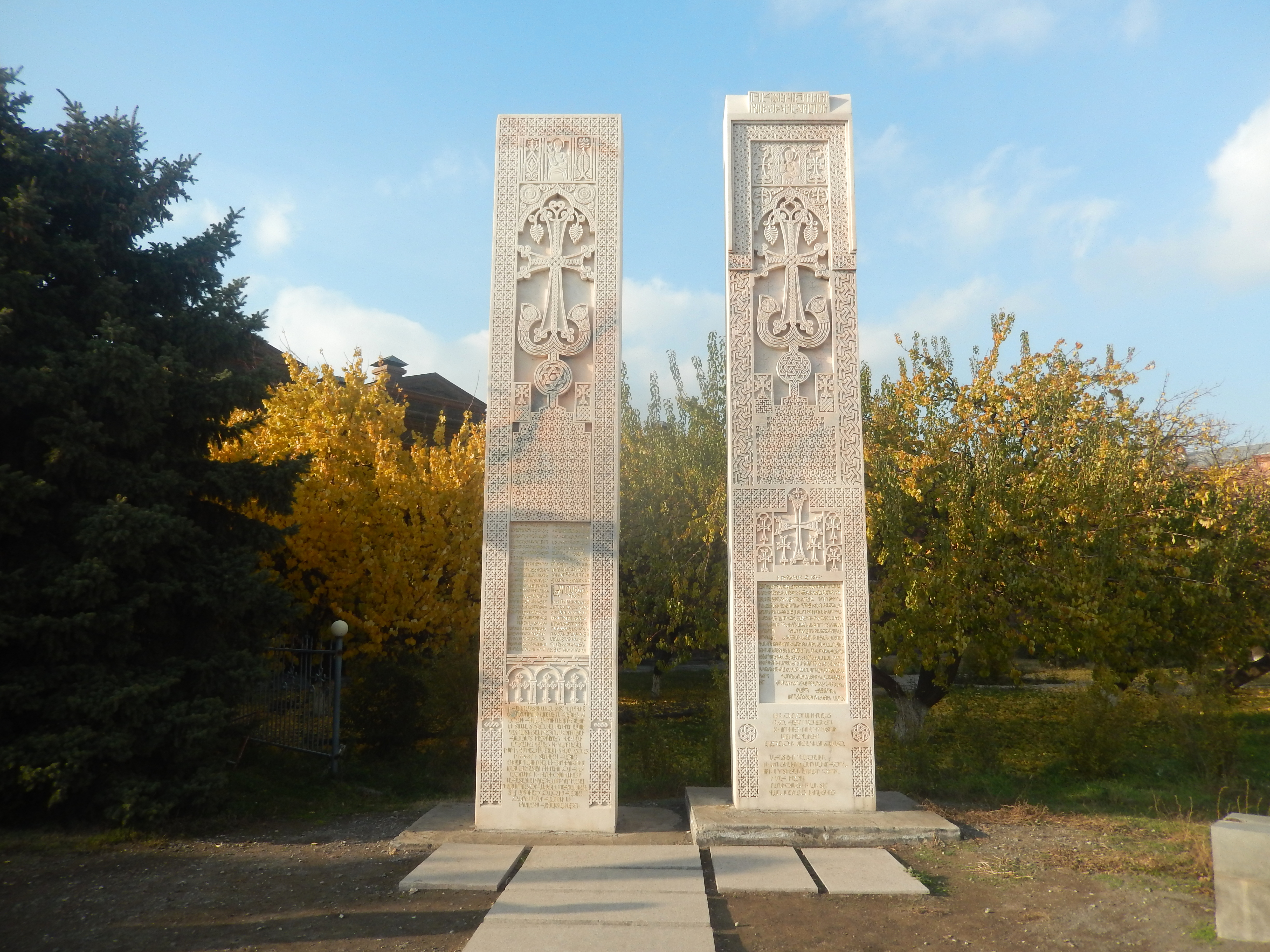 Khachkars from St David Monastery of Derjan Province